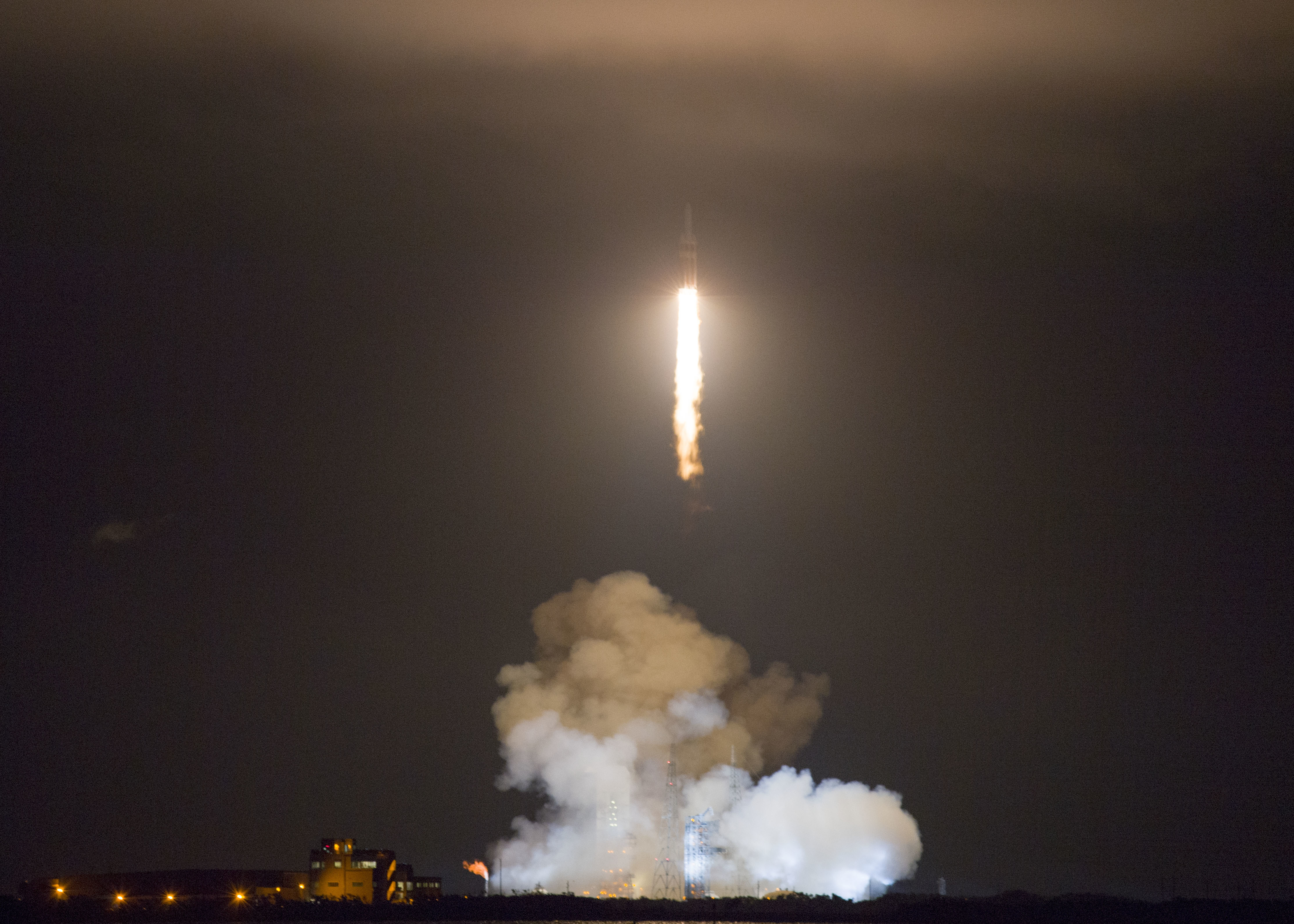 A NASA Delta IV Heavy rocket launches the Parker Solar Probe from Space Launch Complex 37 at Cape Canaveral Air Force Station, Florida, Aug. 11, 2018. U.S. Naval Research Laboratory’s (NRL) Wide-Field Imager for Solar Probe (WISPR)